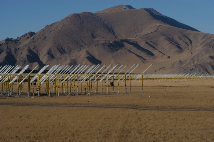 21CMA